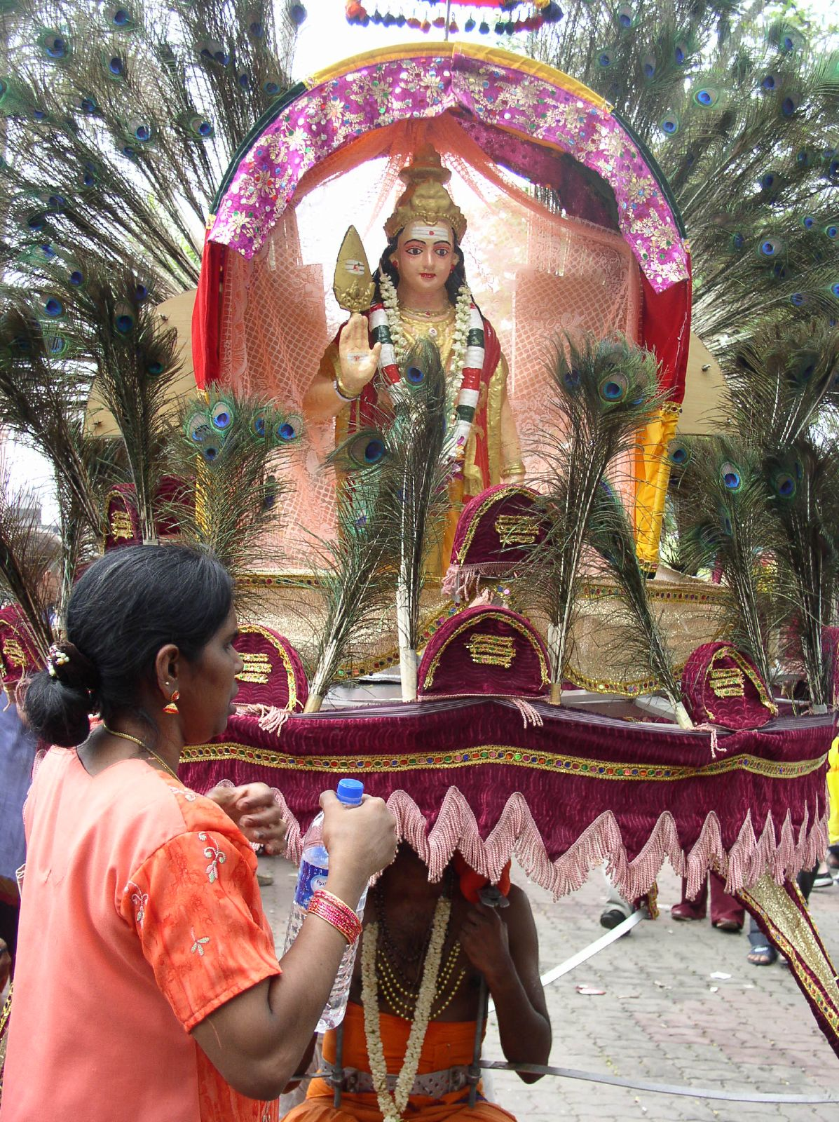 Murugan idol, adorned with peacock feathers, being carried in procession during a Thaipusam festival celebration in Malaysia.